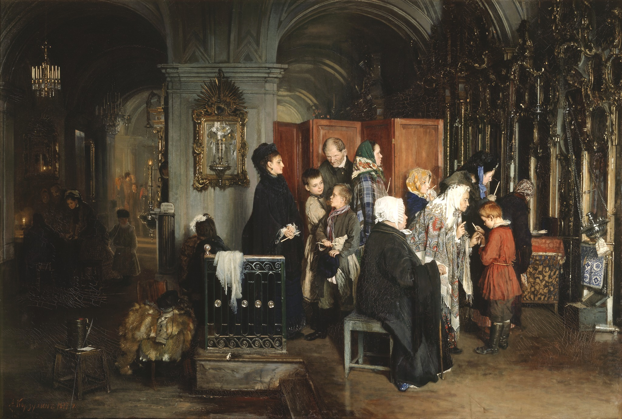 Alexey Korzukhin (1835-1894) Before confession